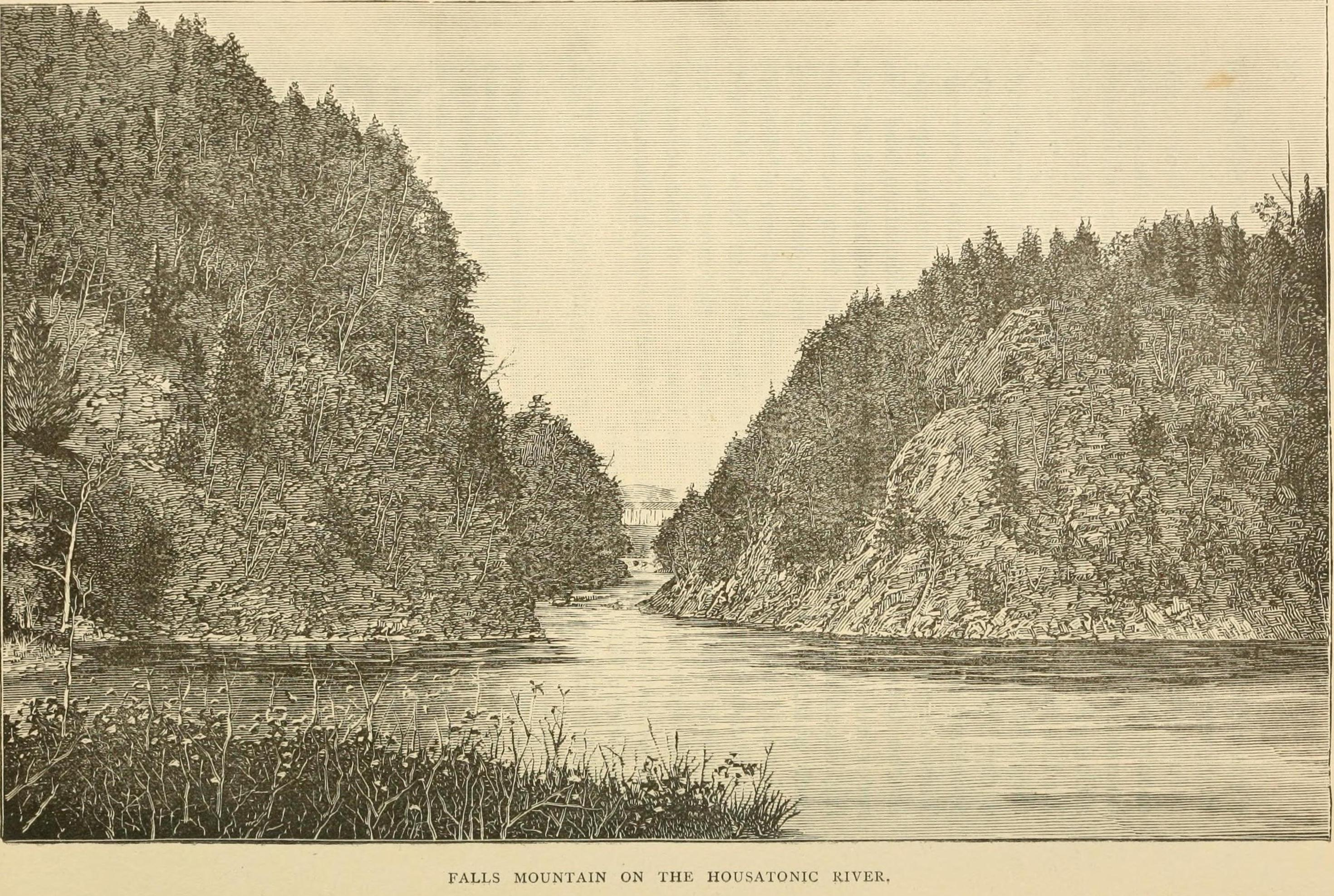 Book engraving of Falls Mountain gorge on the Housatonic River in present-day New Milford Connecticut. Site of a seventeenth century Paugussett Native American fishing village/site.